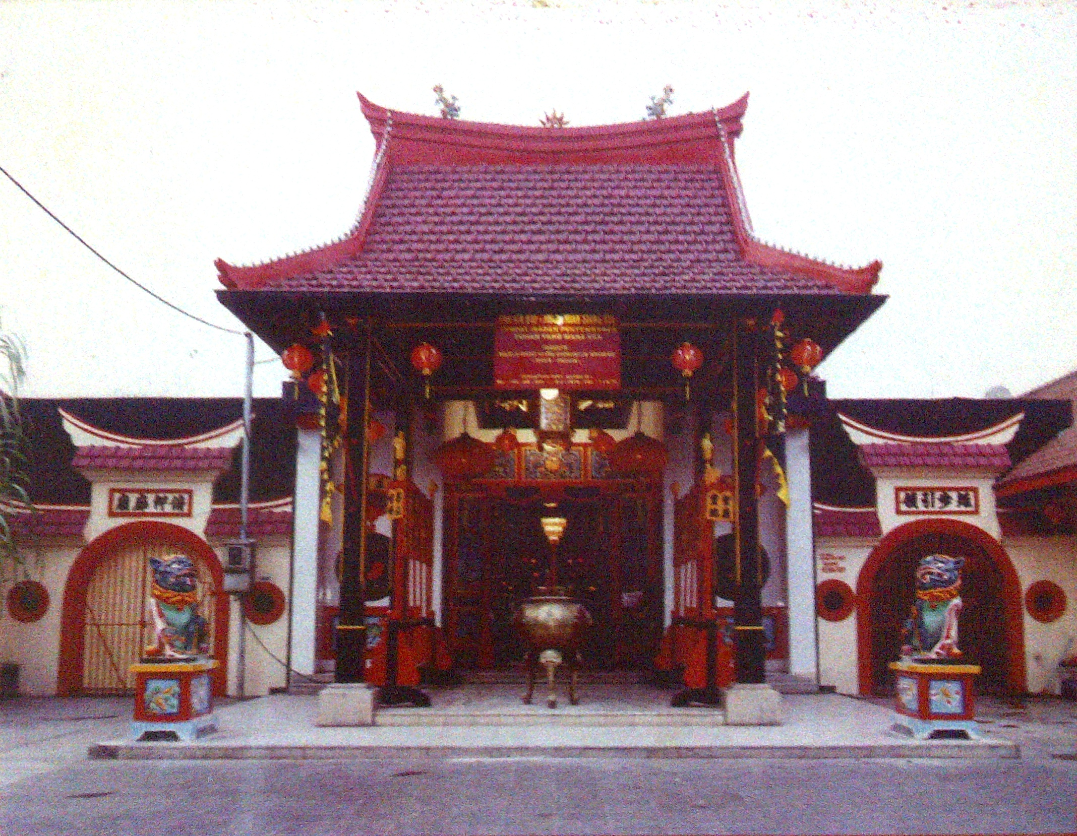 The main entrance of Pak Kim Bio Temple, Surabaya, Indonesia